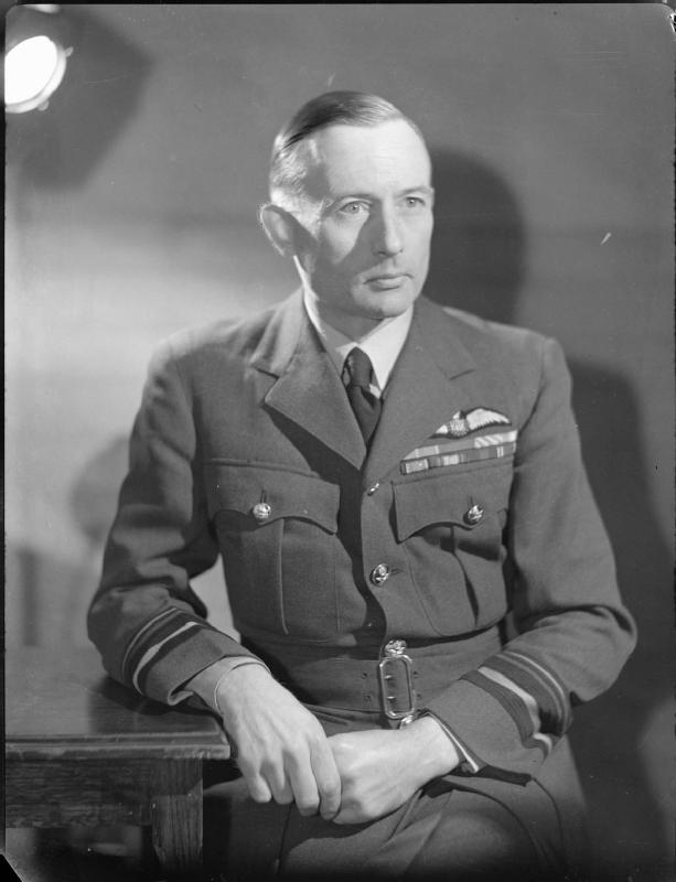 Photograph of Air Vice-Marshal Ralph Cochrane.